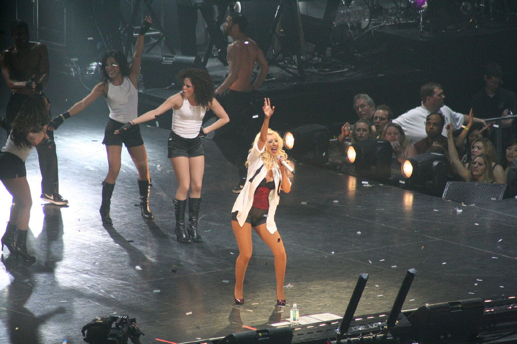 Christina Aguilera on her Back to Basics Tour performs at the Arena at Gwinnett Center in Duluth, Georgia on May 2, 2007.